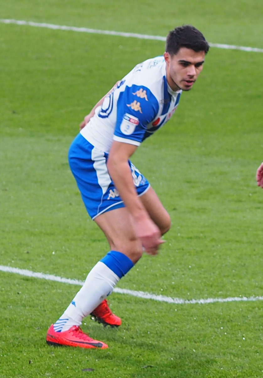 AFC Bournemouth - Wigan Athletic 2:2, Emirates FA Cup Third Round, 6-Jan-2018, Vitality Stadium, Bournemouth